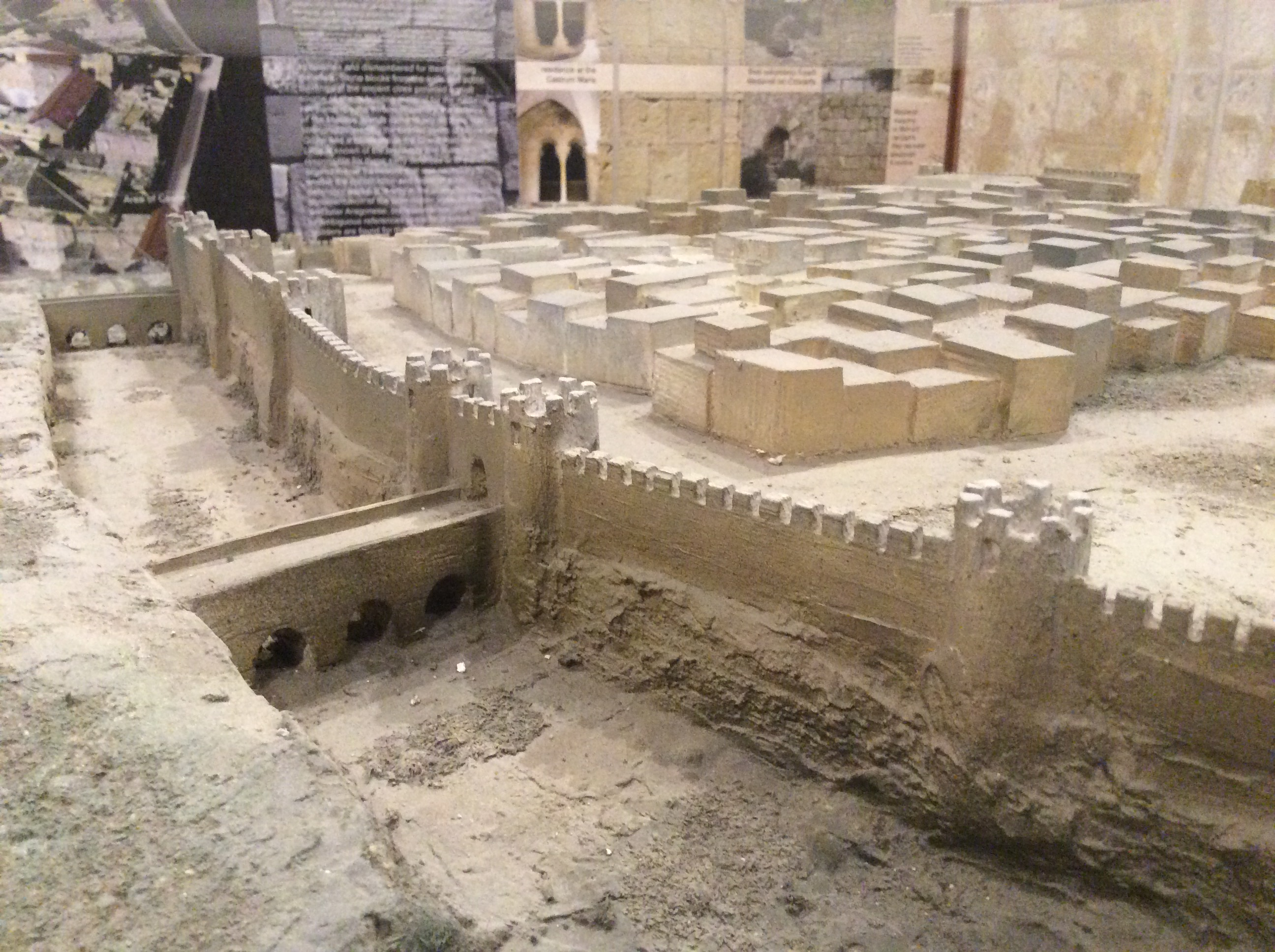 Valletta